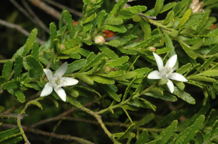 Philotheca difformis subsp. smithiana in the Australian National Botanic Gardens